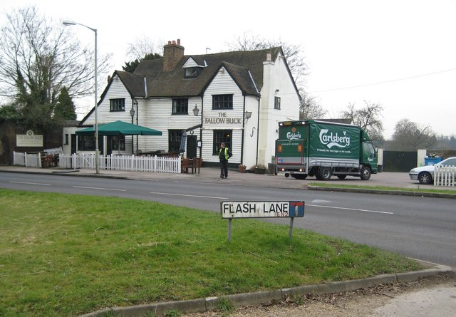 Clay Hill: The Fallow Buck public house Viewed looking across Flash Lane, the Fallow Buck is about to receive a delivery of probably the best lager in the world (their words, not mine).